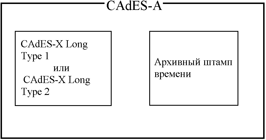 CAdES-A